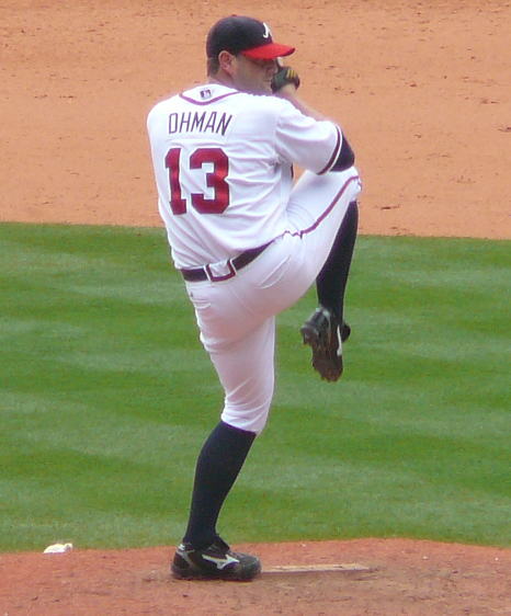 Please attribute this photo by name if used in places other than Wikipedia. 06:50, 29 May 2008 . . Chrisjnelson . . 466×562 (248 KB)